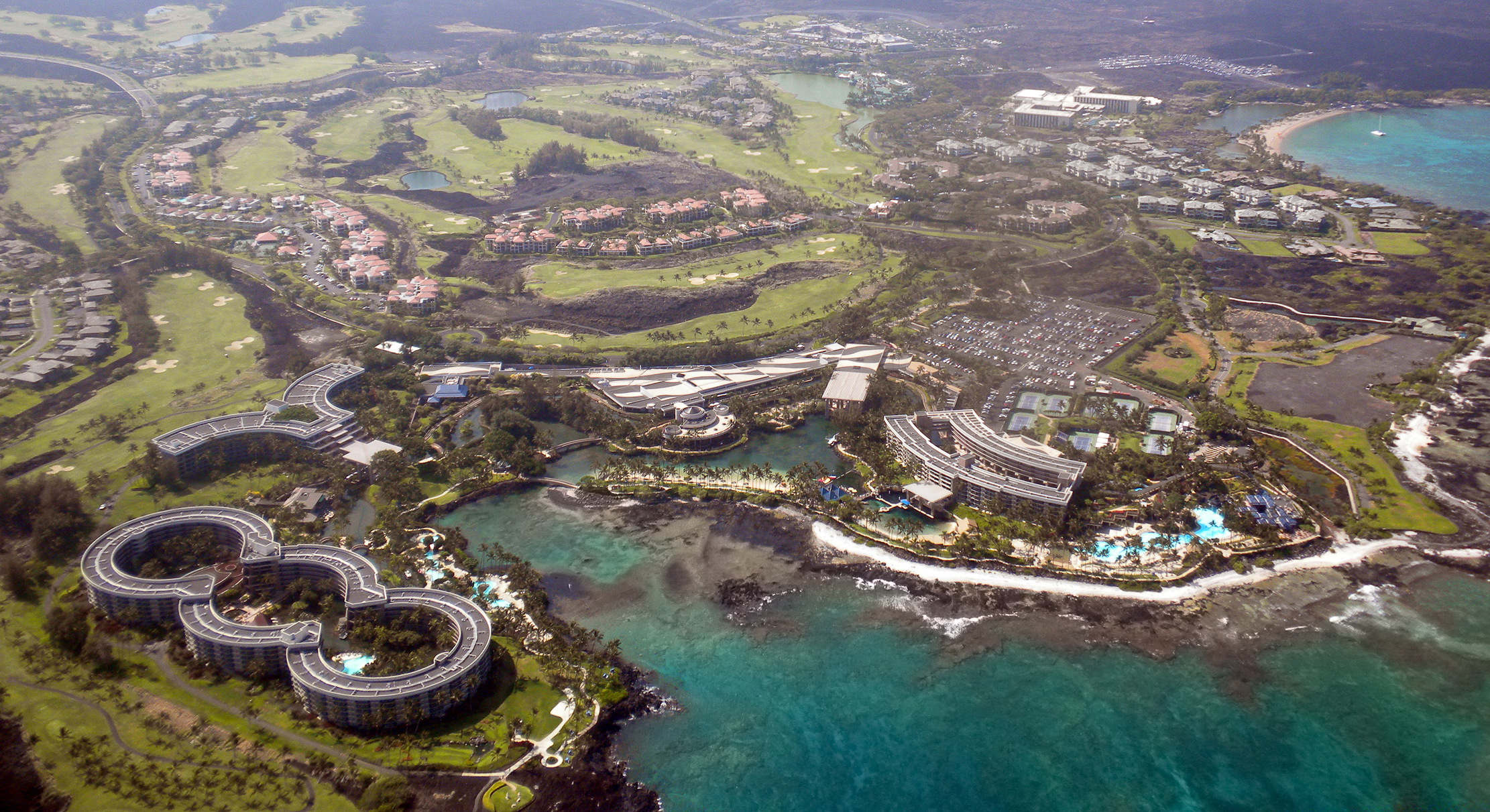 Kohala coast at the Big Island of Hawaii from the air. The image was taken from a helicopter